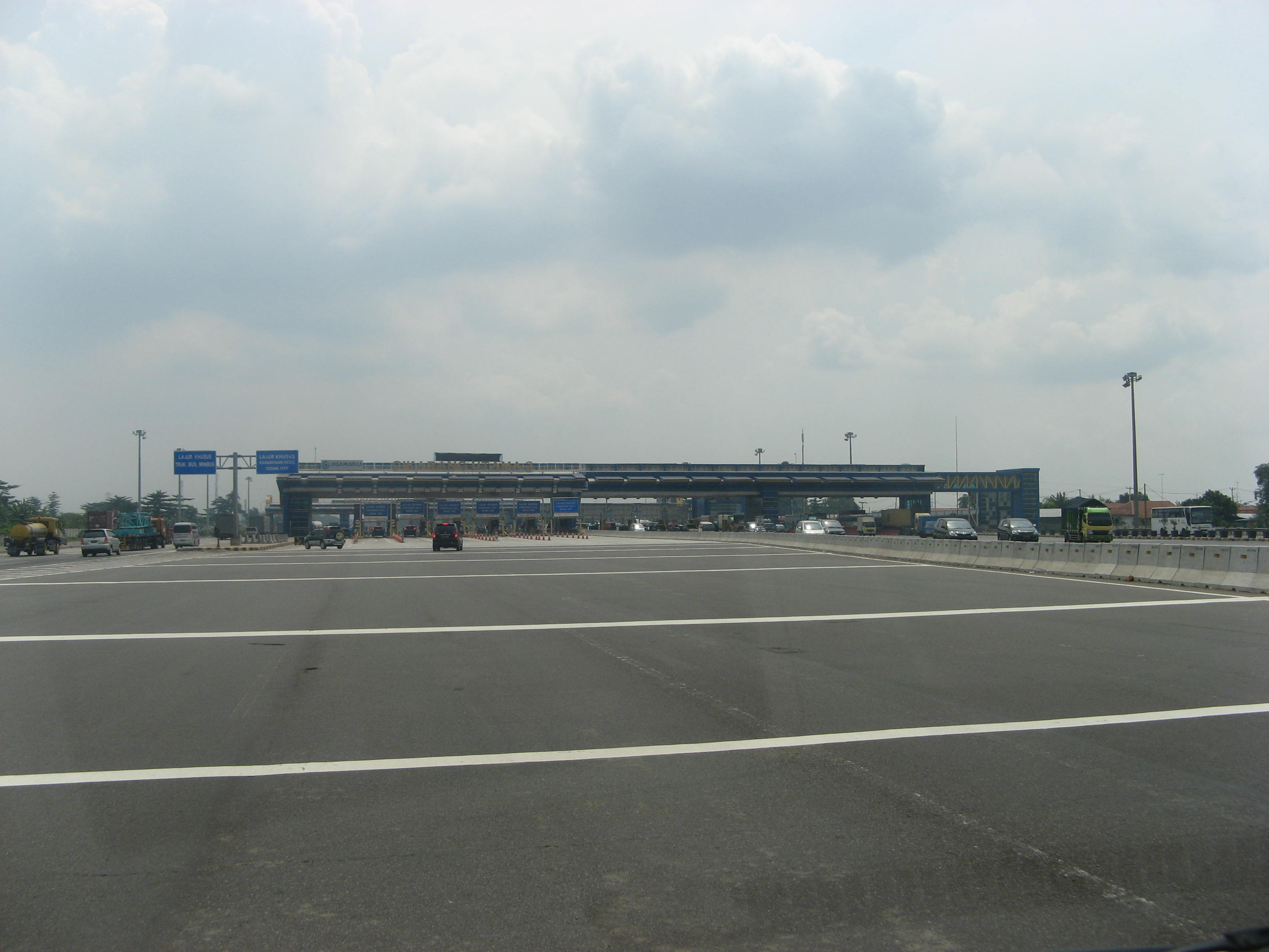 Cikarang Utama toll plaza, 17 April 2012